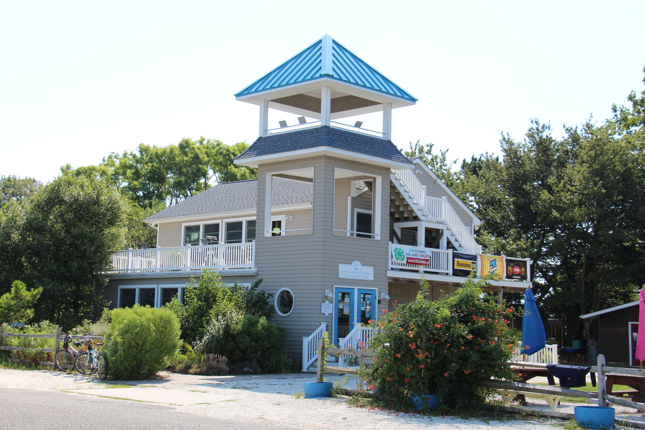 Main building of the Nature Center of Cape May in Cape May, New Jersey